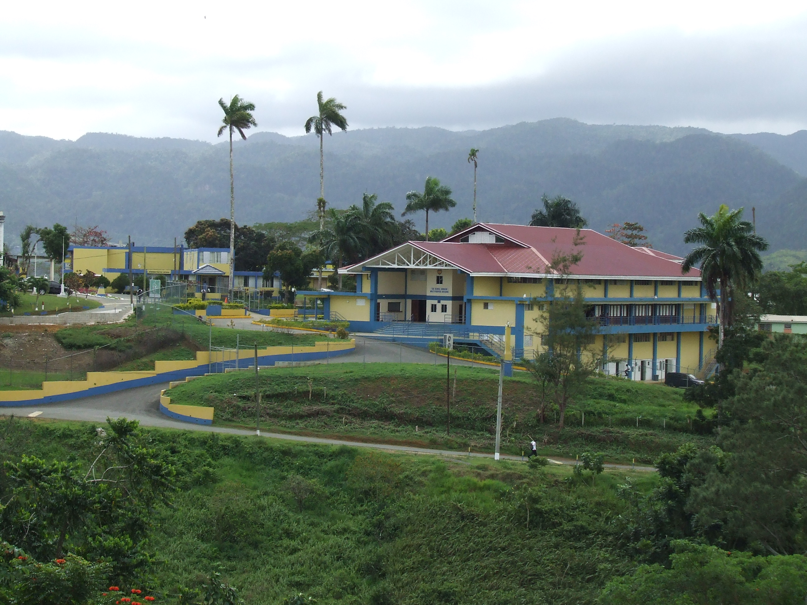 The Gloria-Johnson Multipurpose building houses an auditorium capable of accommodating 2,000 students, a hall, kitchen, four restrooms, and two offices. Another section housing a 130-seat lecture theatre, offices, restrooms, a 30-seat smart classroom and gymnasium.